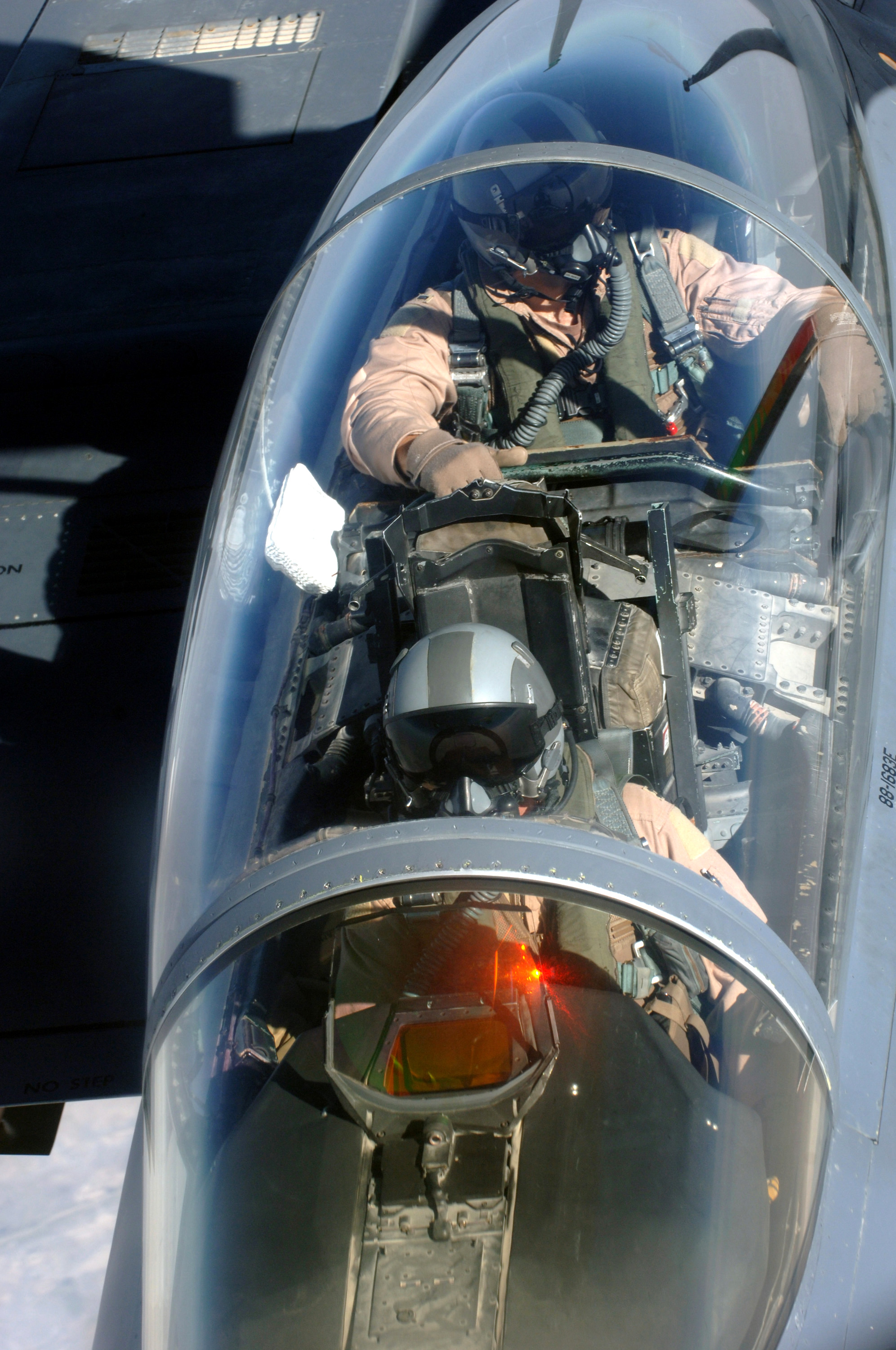 An F-15E Strike Eagle from the 336th Expeditionary Fighter Squadron is refueled over Southwest Asia by a KC-135 Stratotanker from the 340th Expeditionary Air Refueling Squadron on Tuesday, April 11, 2006. The F-15E is deployed from Seymour Johnson Air Force Base, N.C., and the KC-135 is from Fairchild AFB, Wash.